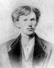 This is Dr. John Henry Holliday's Philadelphia School of Dental Surgery 1872 graduation photo, so it is certainly the man. He is here aged 20 years, 5 months. Note that at graduation he wasn't old enough to obtain a license to practice in Georgia (age 21 was required) so he had to serve some additional apprenticeship. The source is " which doesn't provide THEIR source. However, the image is an 1872 graduation image which was published in that year, and court cases have generally decided that historical photos published before 1923 are in the U.S. public domain.